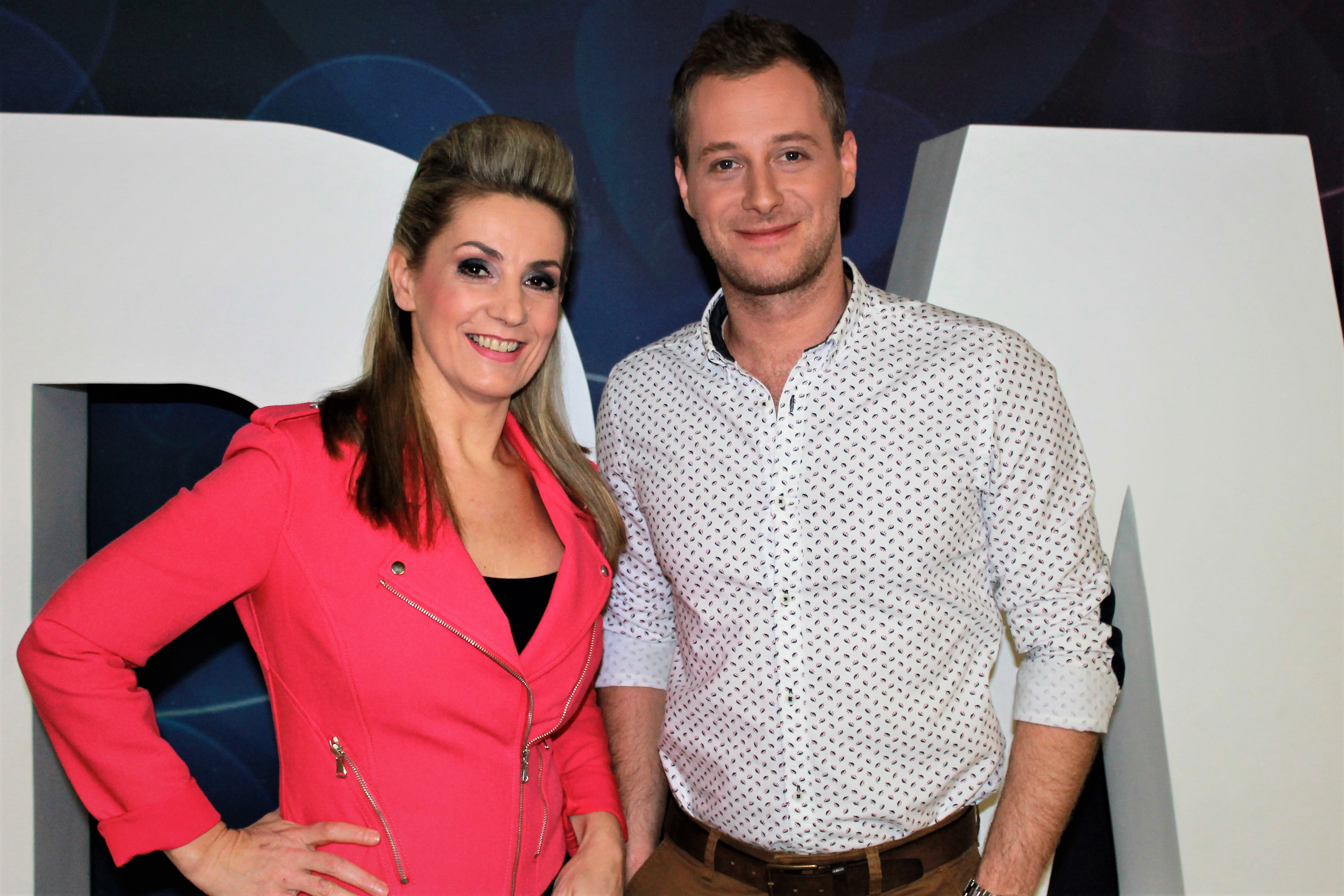 The hosts of A Dal Kulissza: Orsi Pflum & Bence Forró